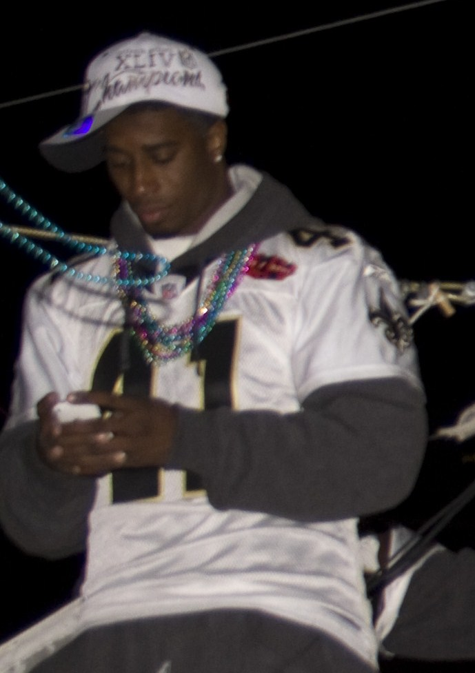 New Orleans Saints Super Bowl Victory Parade on Canal Street.